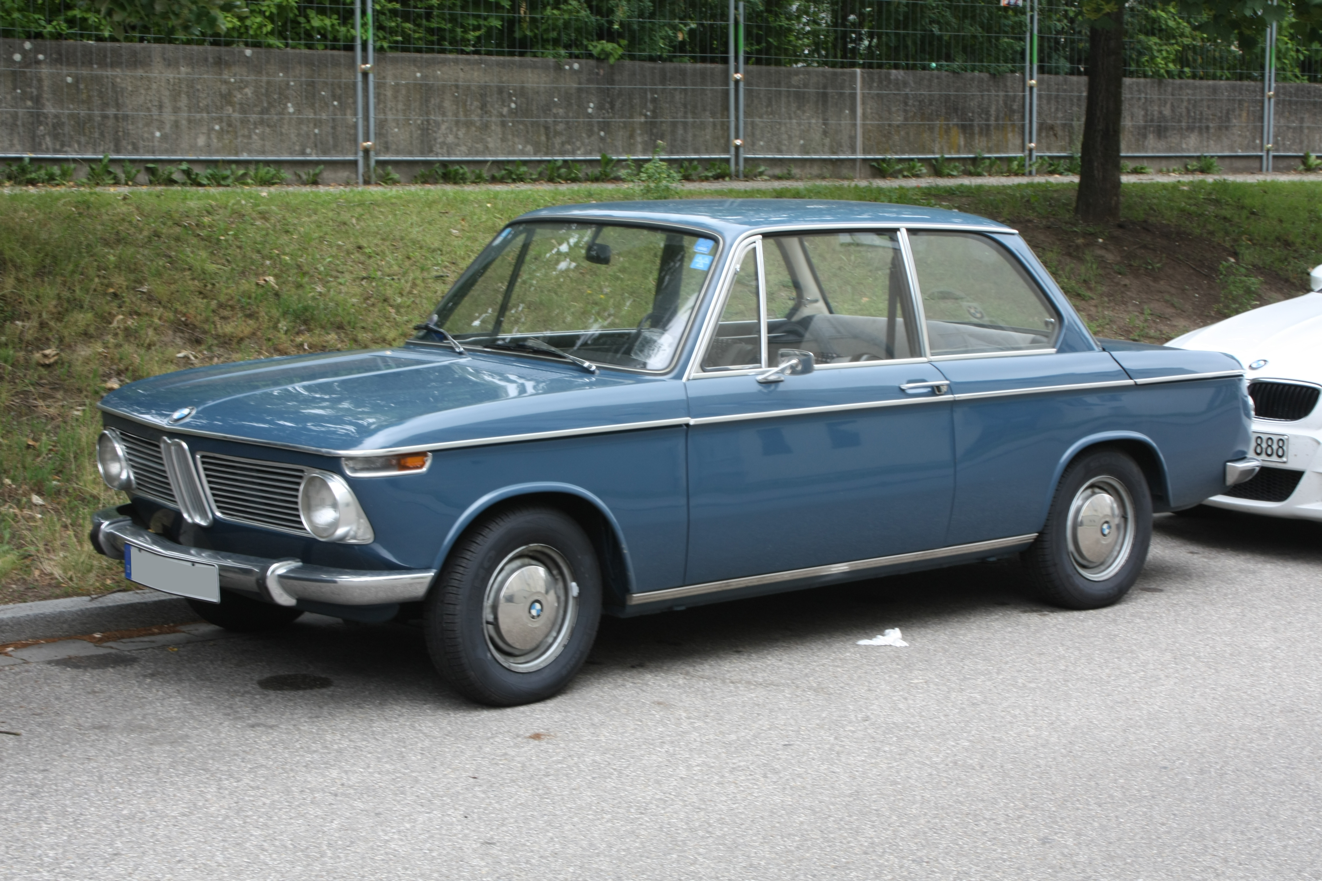 BMW 1600